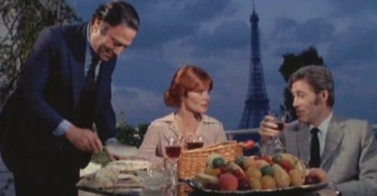 L. to R. : Raf Vallone, Adrienne Corri, and Peter O'Toole in Rosebud (1975) - trailer (cropped screenshot).